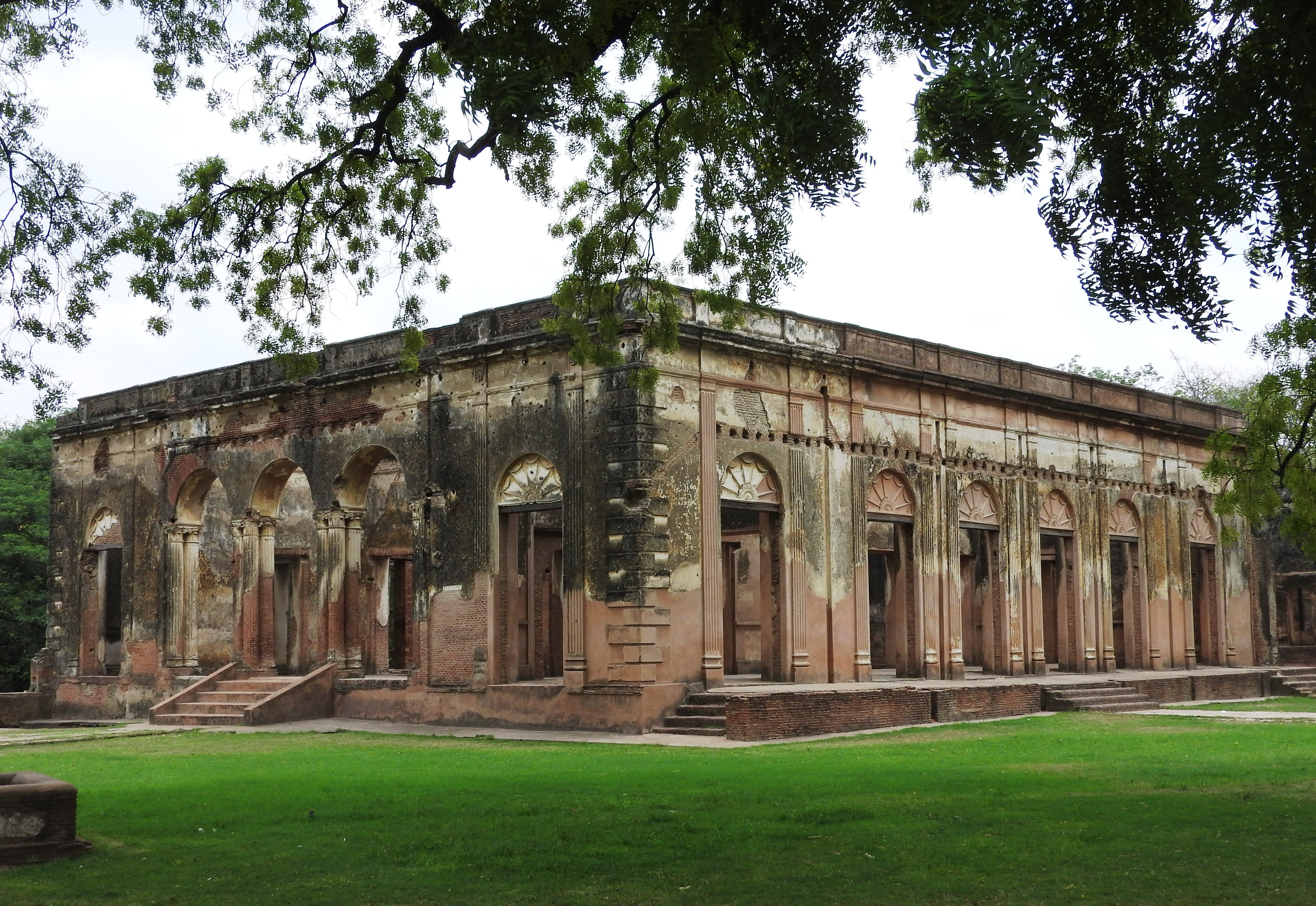 The British Residency is a group of several building in a common precinct in the city of Lucknow, India. The Residency now exists in ruins and is located in the heart of the city. It was constructed during the rule of Nawab Saadat Ali Khan II,who was the fifth Nawab of the province of Awadh.The construction took place between 1780 to 1800 AD and served as the residence for the British Resident General who was a representative in the court of the Nawab.